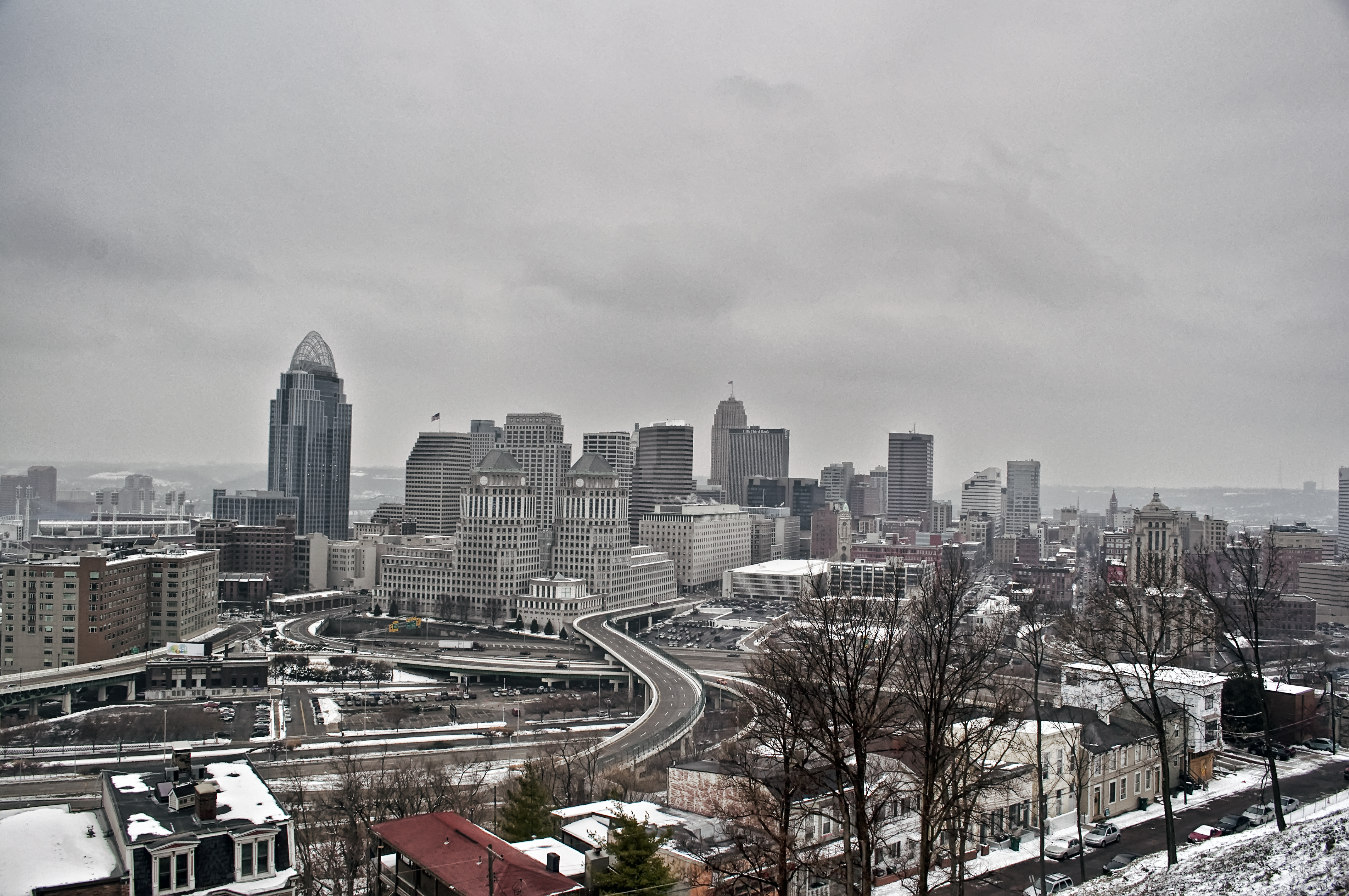 Downtown Cincinnati viewed from Mt At Adams wintertime 2010